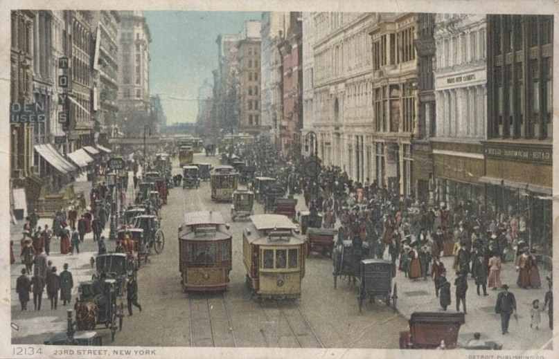 Postcard picture of 23rd Street, Manhattan, New York City, showing trolley cars, horses and carriages and many pedestrians; a shopping district with stores on both sides